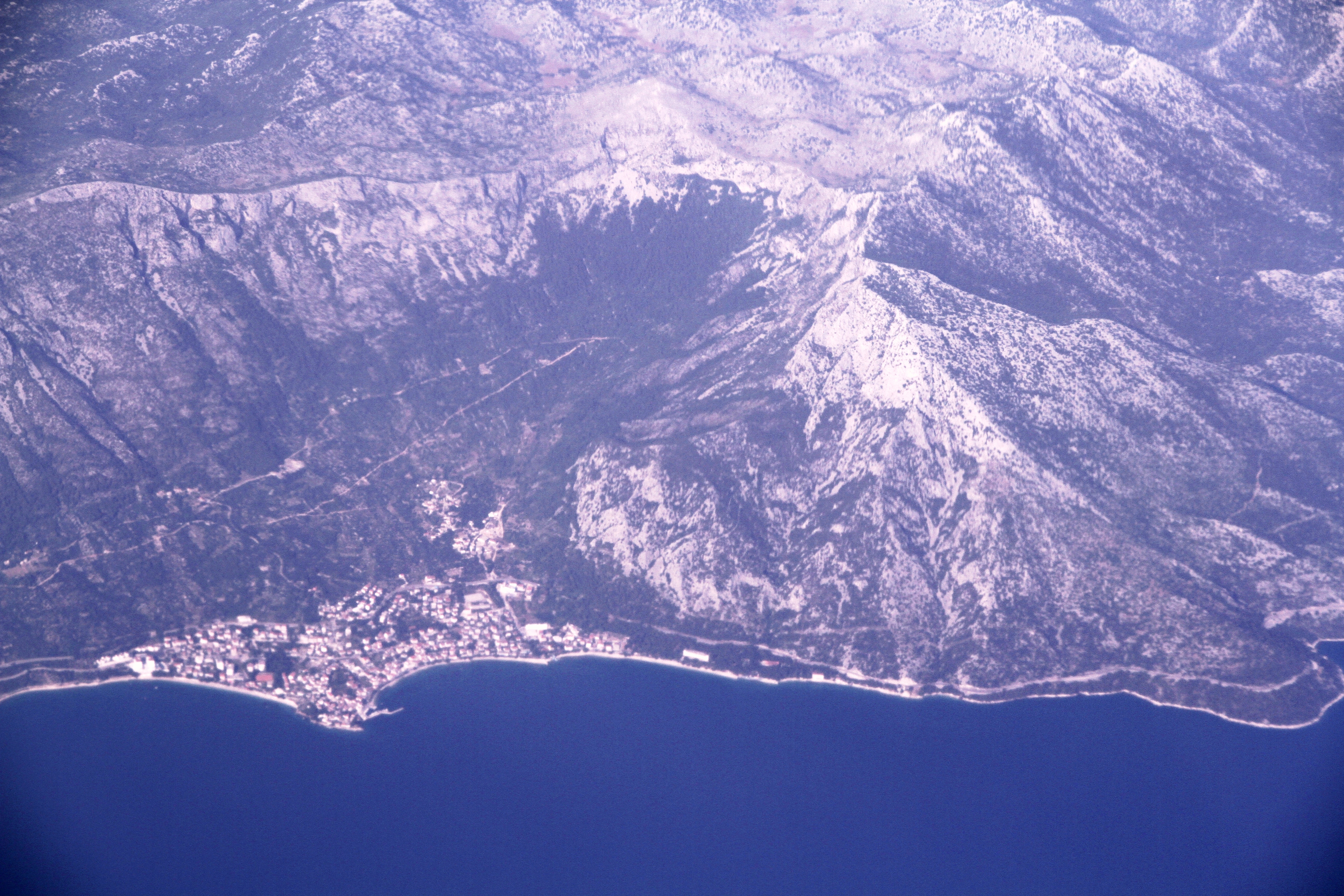 Aerial view over the western, Dalmatia parts of Croatia. This id the coastal city of Gradac, with the Biokovo mountains